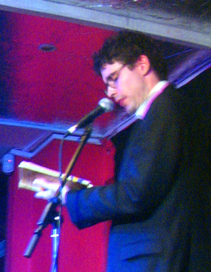 Joshua Ferris, London Word Festival